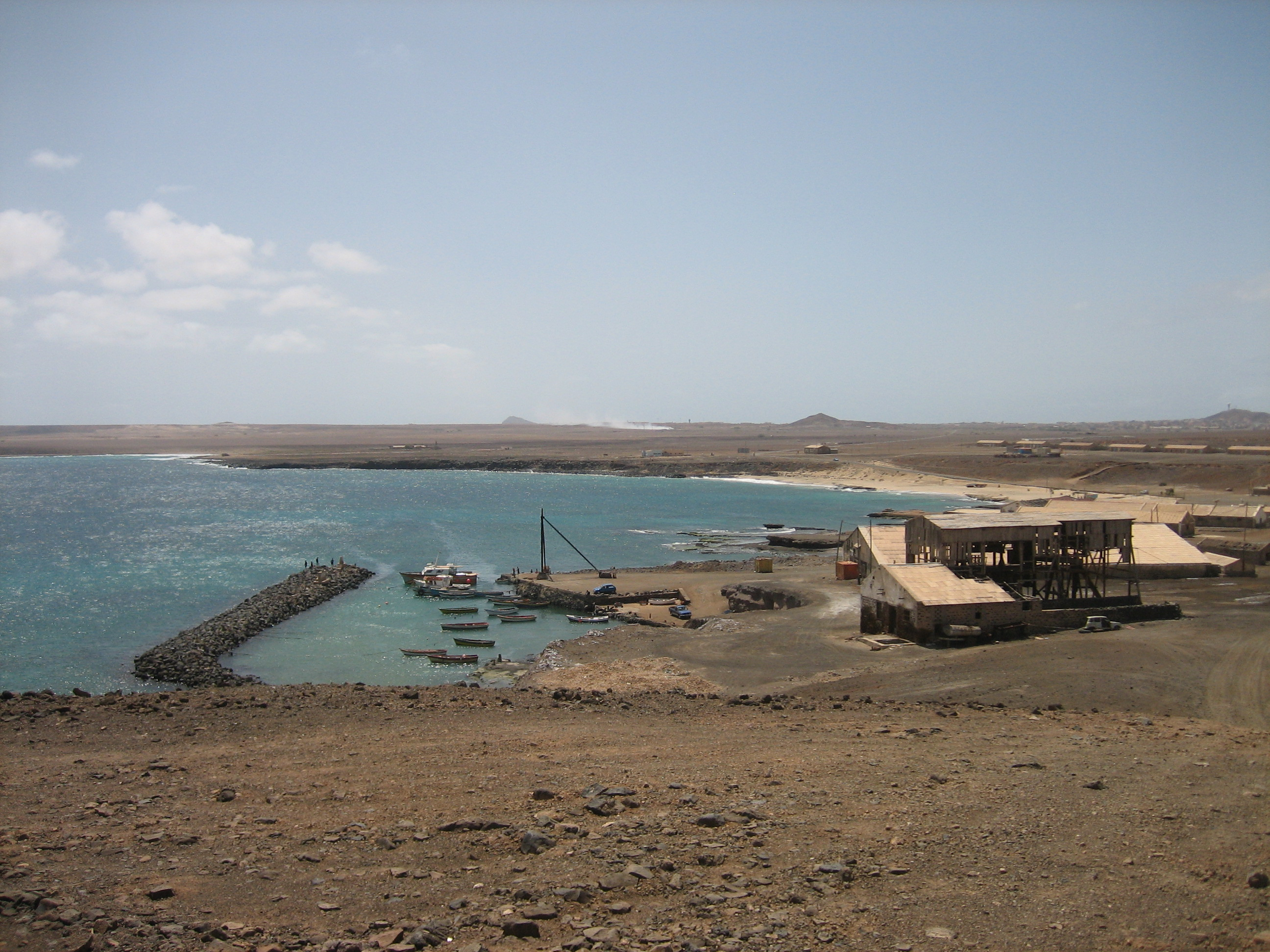 Harbour of Pedra Lume at the east coast of Sal, Cape Verde. The building in the right front is a relict of the former conveyor system from the salinas.